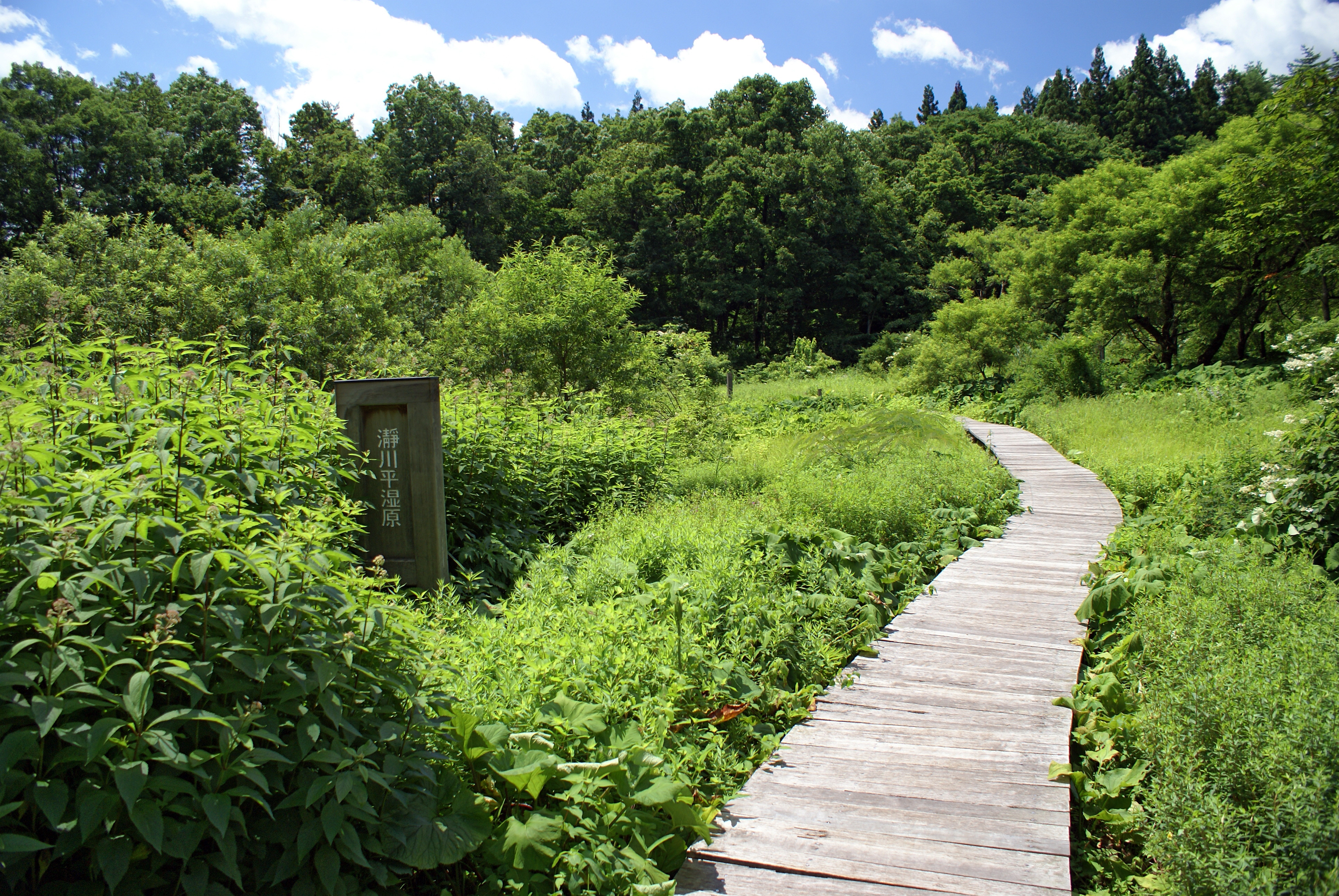 Tajima Plateau Botanical Gardens (Torokawadaira) in Kami, Hyogo prefecture, Japan